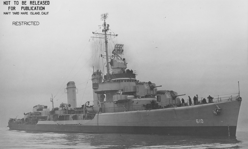 The U.S. Navy destroyer USS Hobby (DD-610) stands off Mare Island, California (USA), on 15 November 1942.